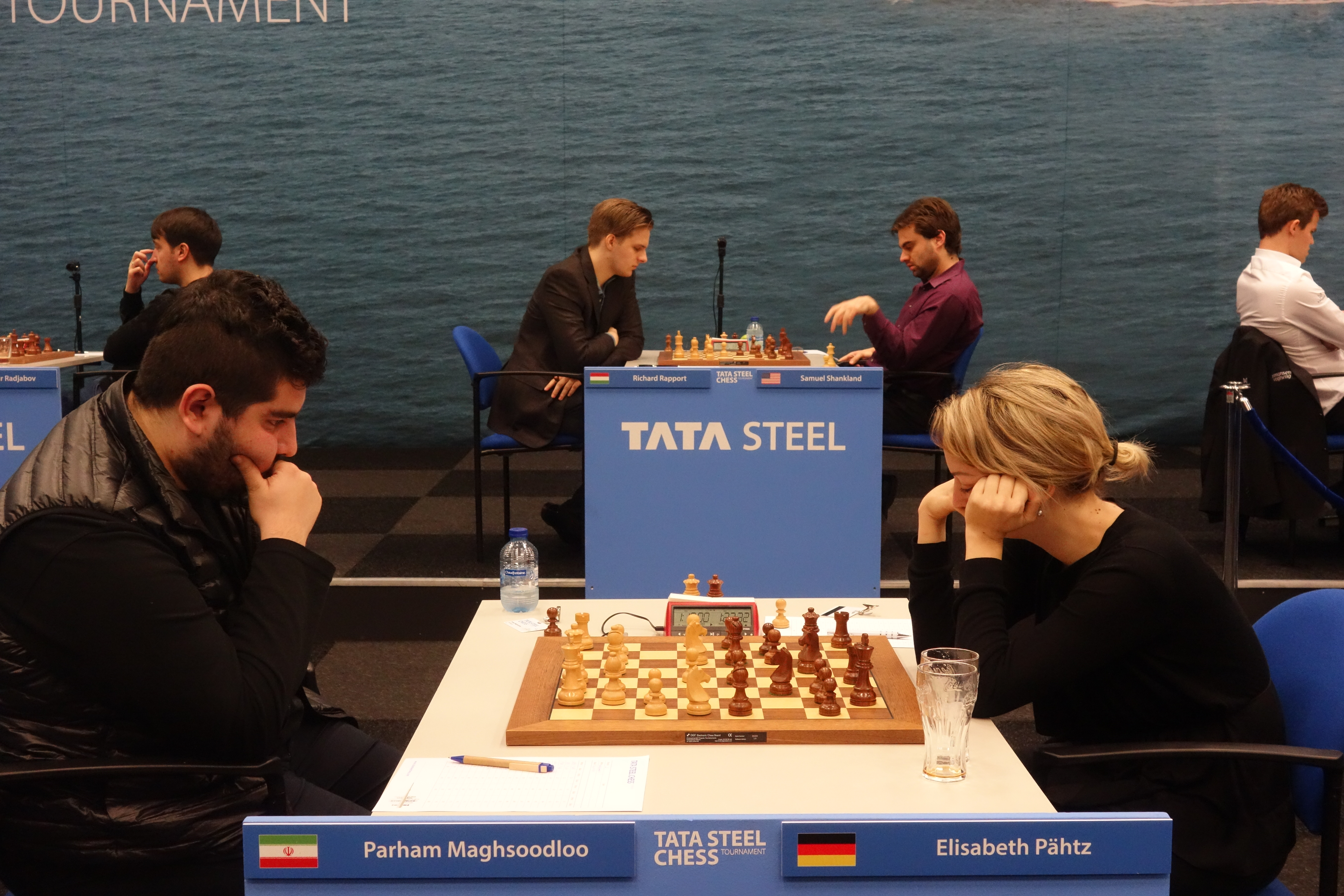 Tata Steel Chess Tournament 2019, Wijk aan Zee (the Netherlands), 13 Jan. 2019